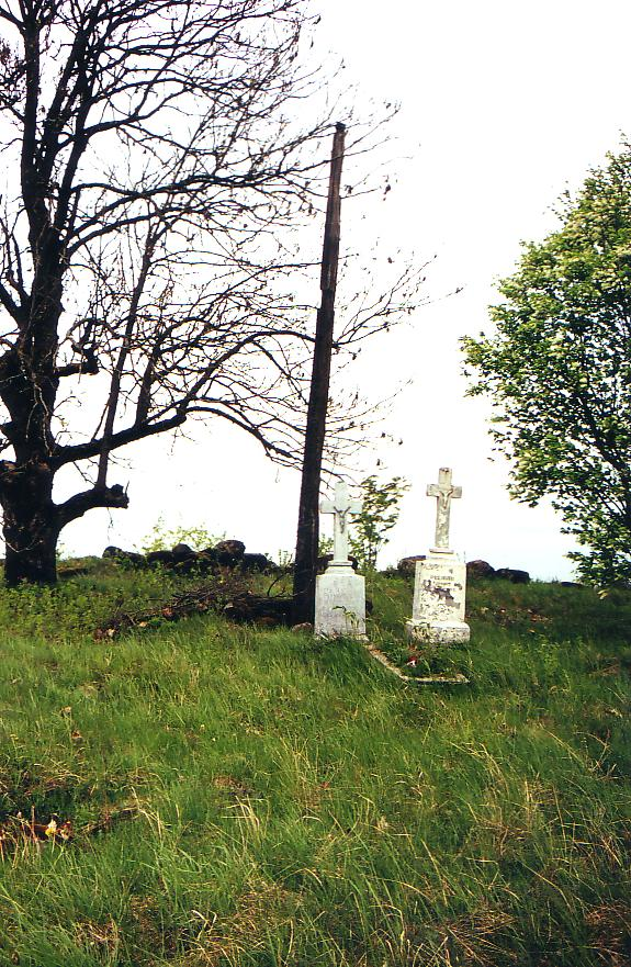 Šatraminiai cemetery, Skuodas district, Lithuania